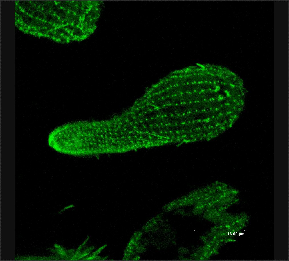 Beta-Tubulin in Tetrahymena cell, visualised using GFP-marked anti-beta tubulin antibodies under confocal microscopy. Work supervised by Dr Hanna Fabczak. Made during Polish Children Fund's workshops at M. Nencki Institute of Experimental Biology in Warsaw